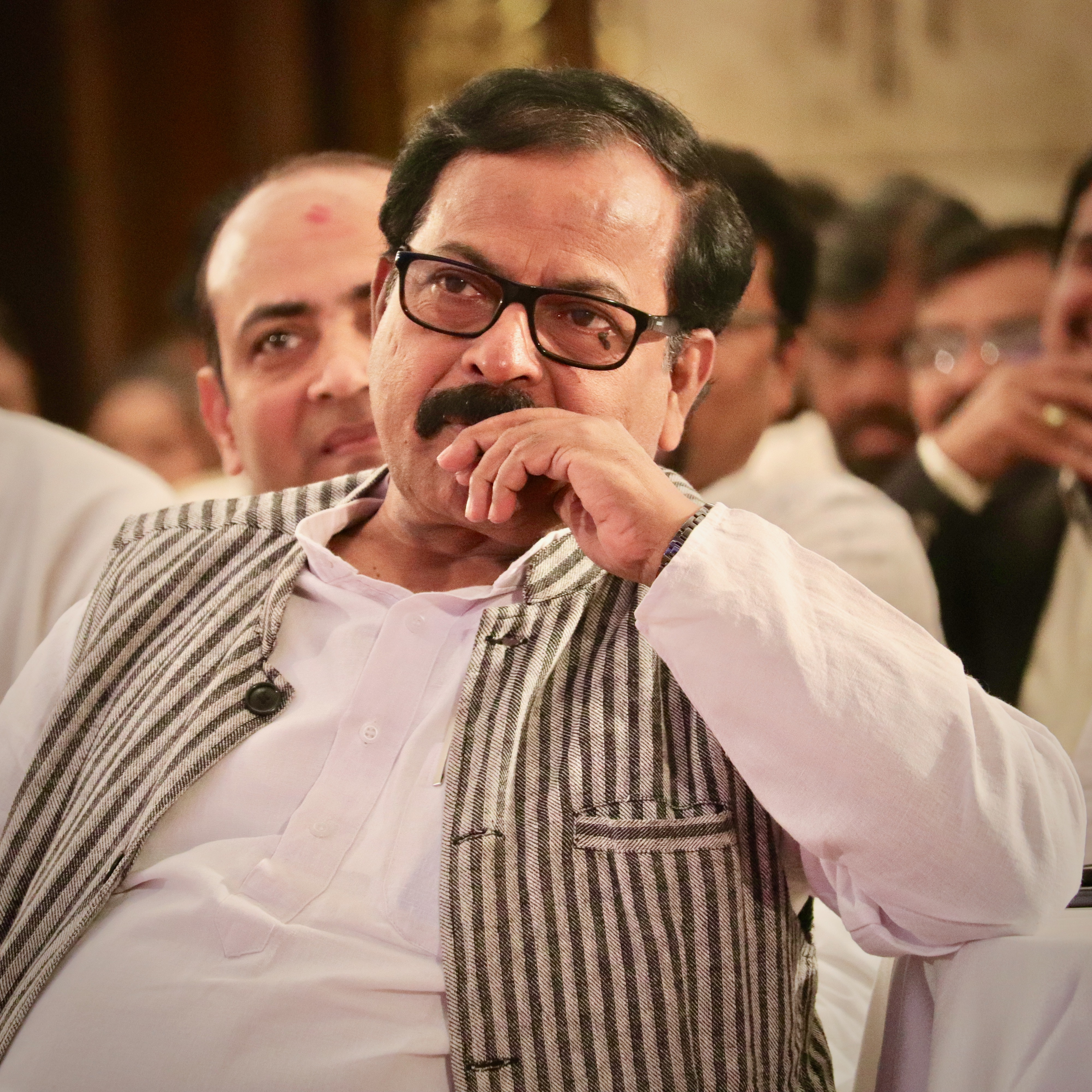 Shashi Bhusan Behera